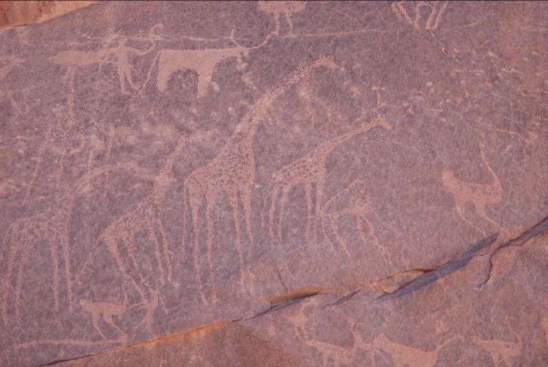 Ancient Petroglyphs of Giraffe, Ostrich, and longhorned cow being driven by a human, carved into rocks in what is now desert Gilf Kebir, Egypt.